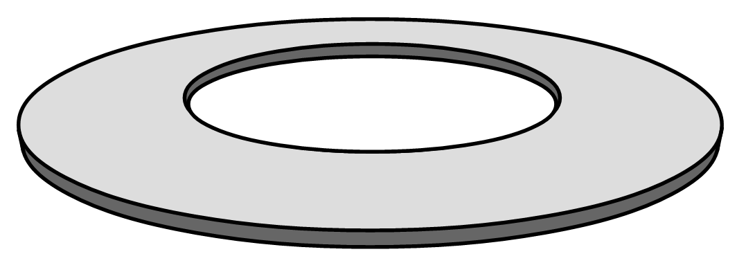 Figure of disc spring